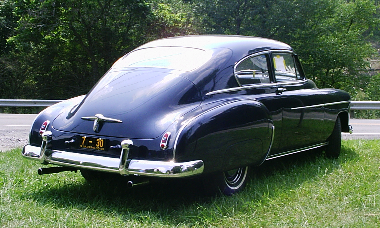 1950 Chevrolet Deluxe Series 2100HK, Sub-Series Fleetline, Model 2153 2-door Fastback photographed off US-19 near the town of Daniels, West Virginia.